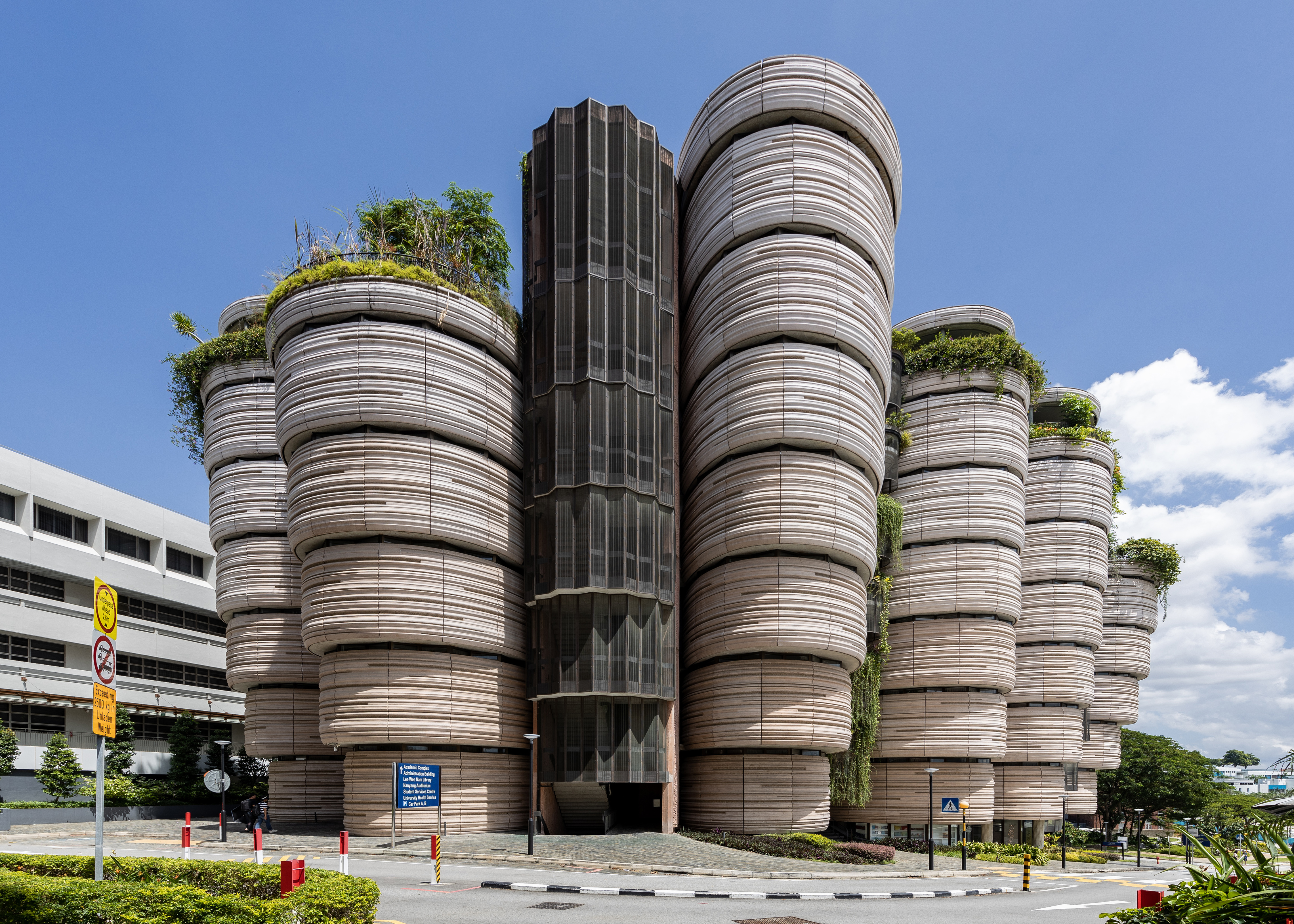 The Hive, also known as the Learning Hub, is a building located in Nanyang Technological University, Singapore. The S$45 million building was designed by Thomas Heatherwick and completed in 2015. Colloquially, the building is known as the "dim sum basket building" due to its likeness to the steamer baskets used to serve dim sum. The Hive was a finalist for the 2015 World Architecture Festival Commercial Mixed-Use Award in the Future Projects subcategory.